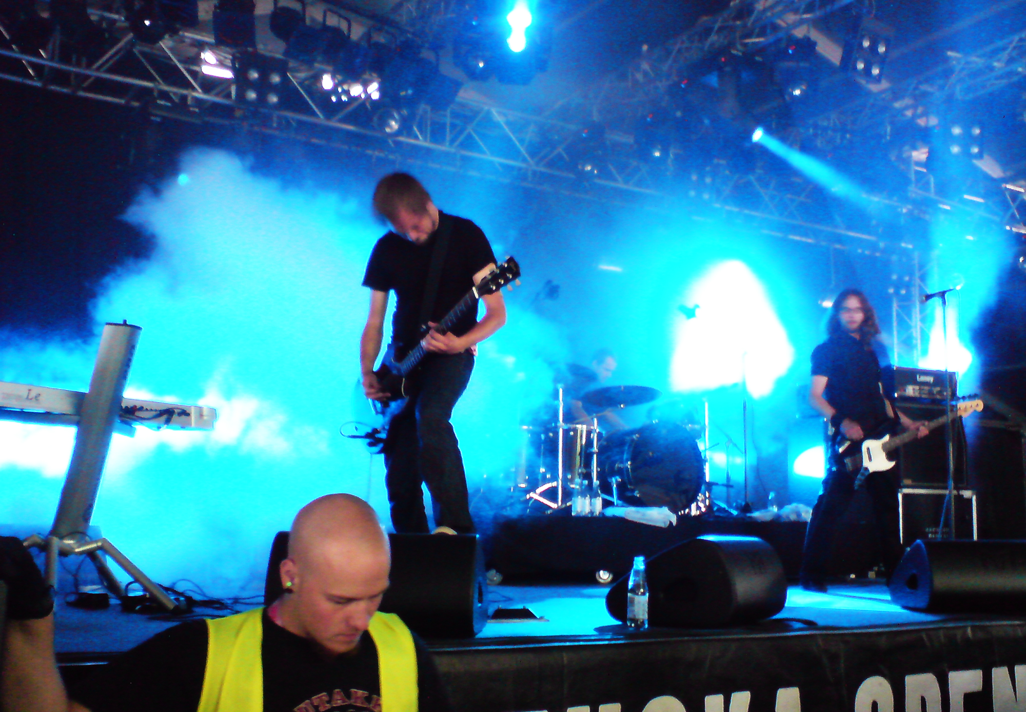 Ghost Brigade at Tuska Open Air Metal Festival 2008.